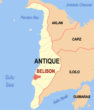 Map of Antique showing the location of Belison